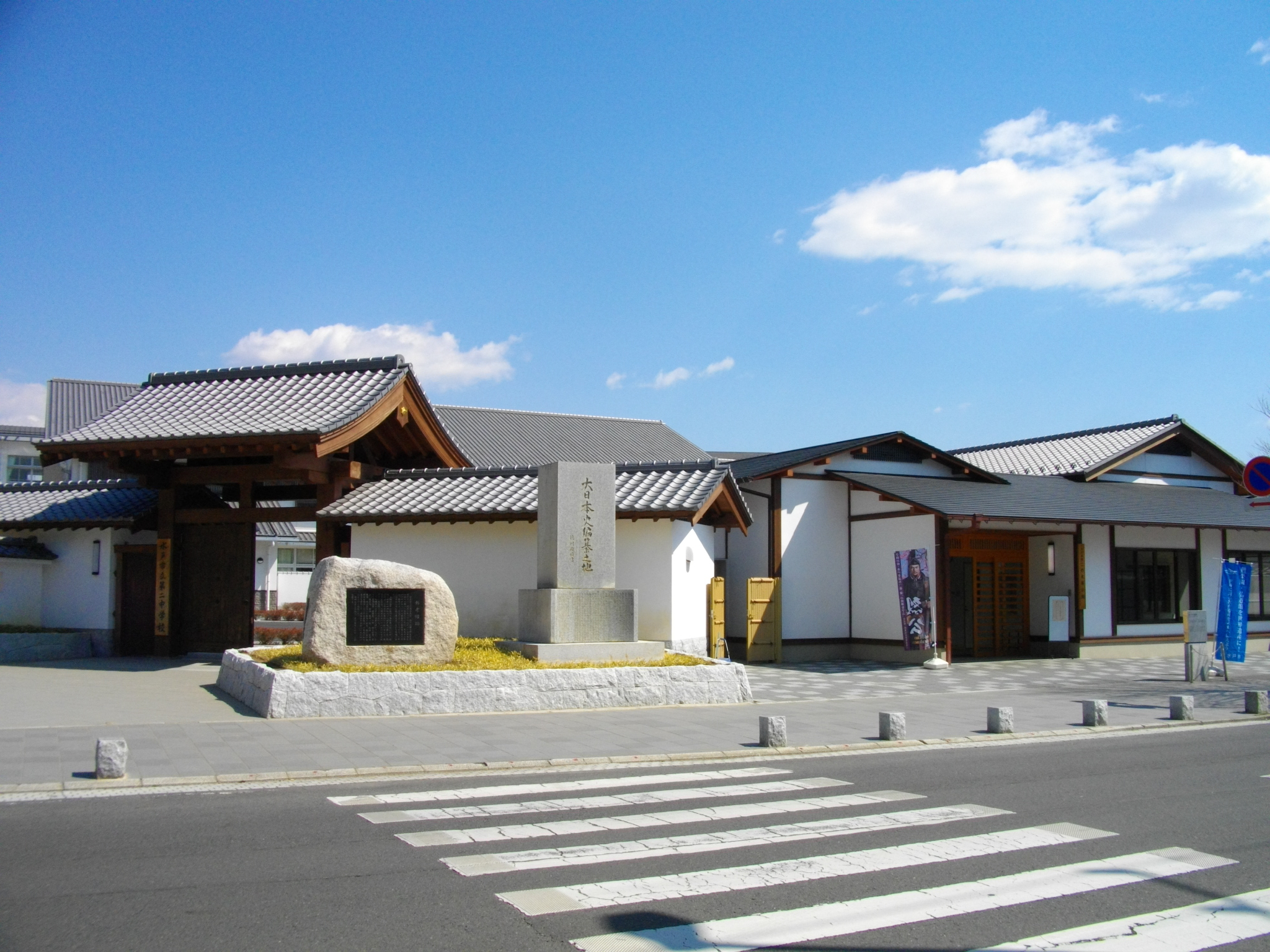 Site of the Shokokan Hall